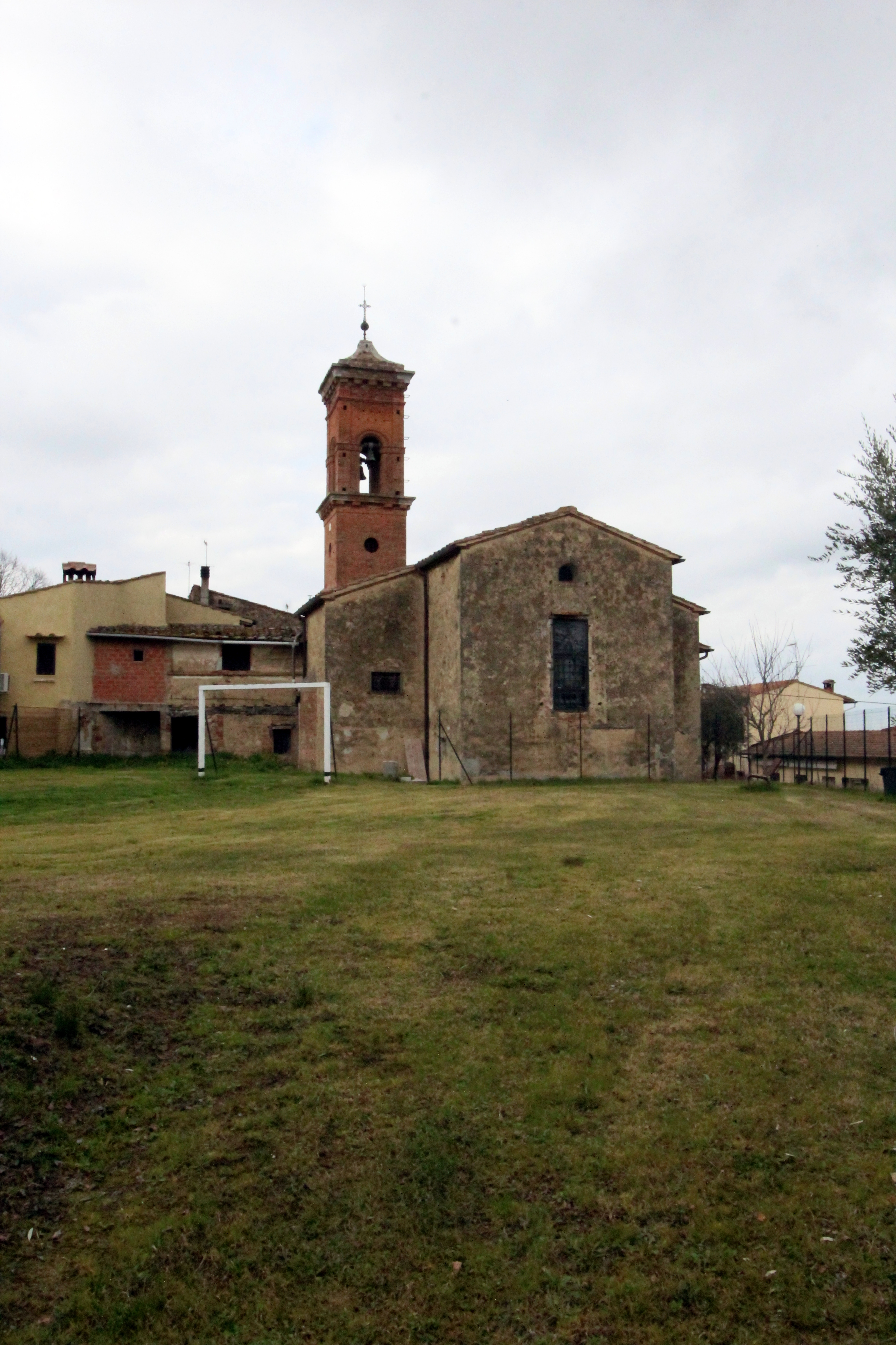 Church Santa Maria Assunta, Lecchi di Staggia, hamlet of Poggibonsi, Province of Siena, Tuscany, Italy